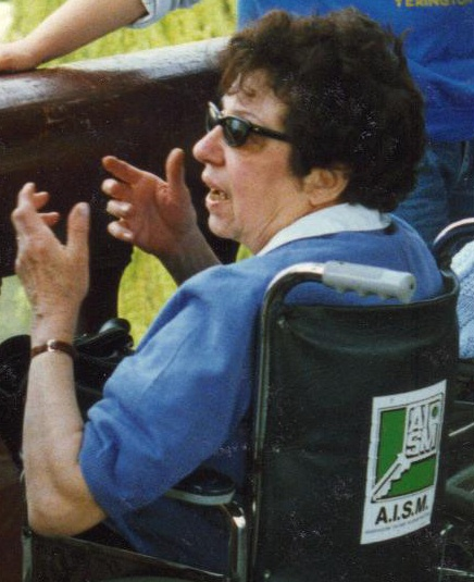 Cuneo Lyde